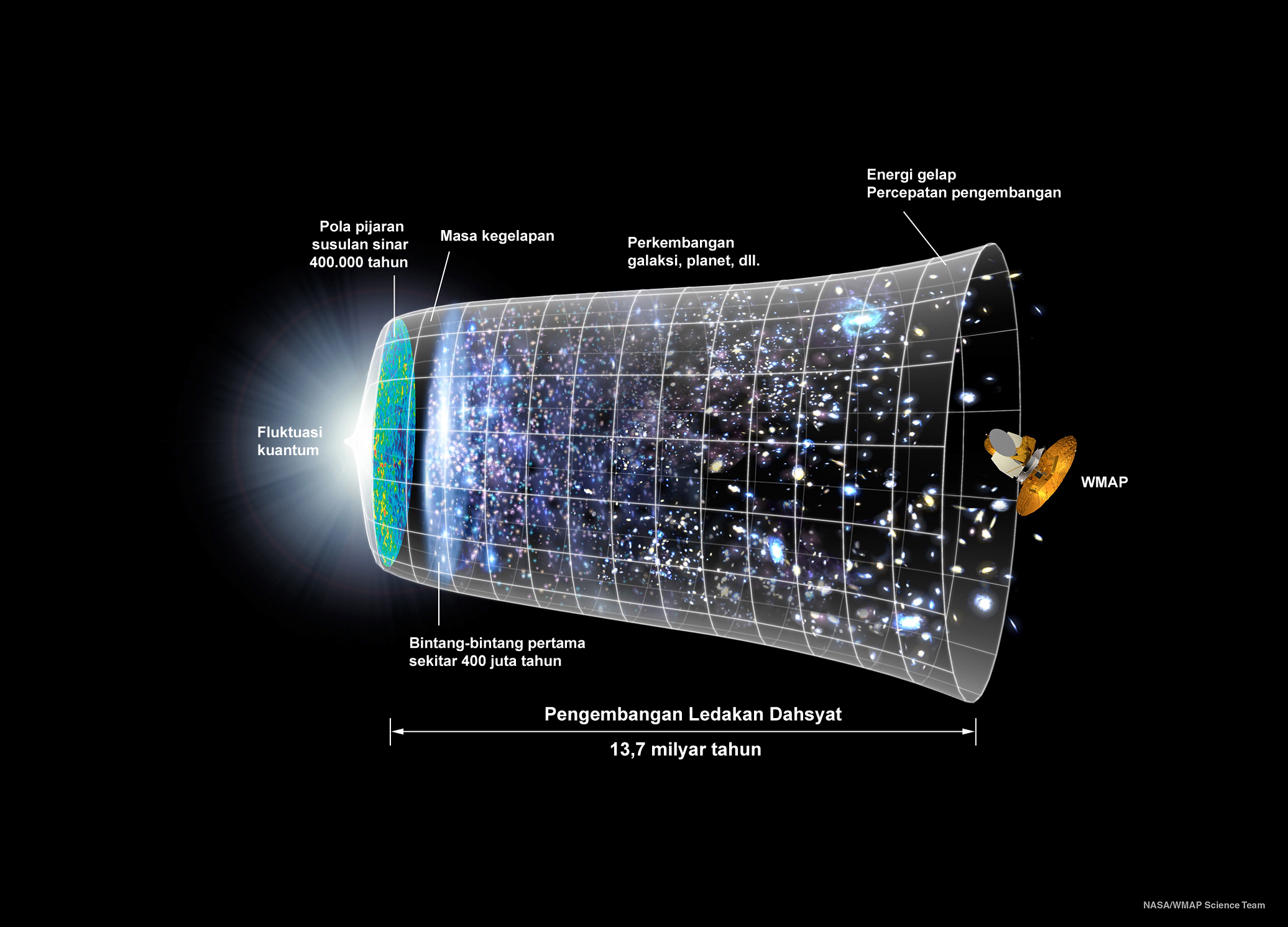 Universe timeline